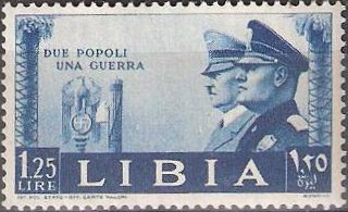 The last postage stamp of Italian Libya, 1.25 lires, 1941, Hitler & Mussolini, Scott #101.